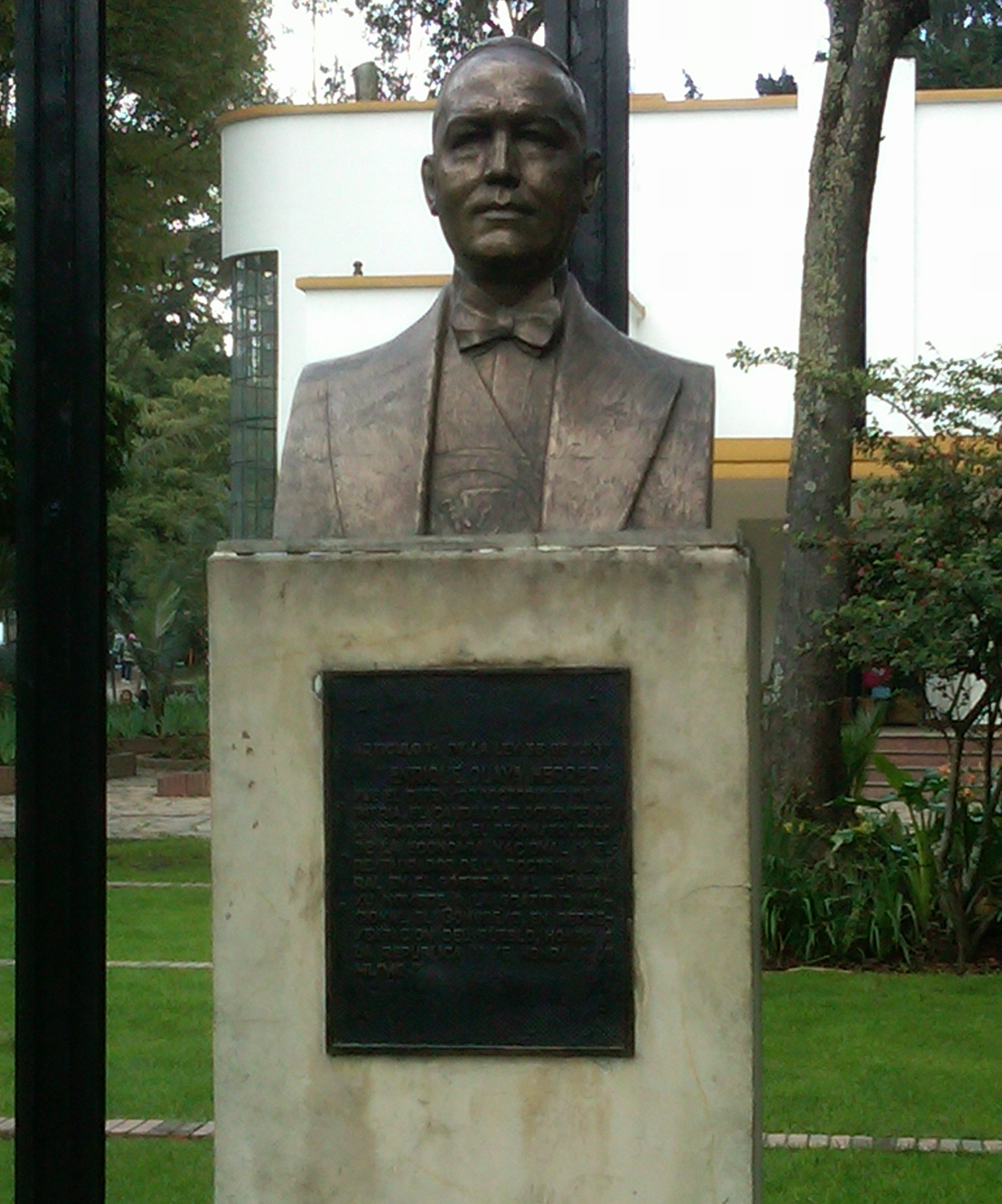 Bust of Enrique Olaya Herrera after whom this national park in Bogotá is named